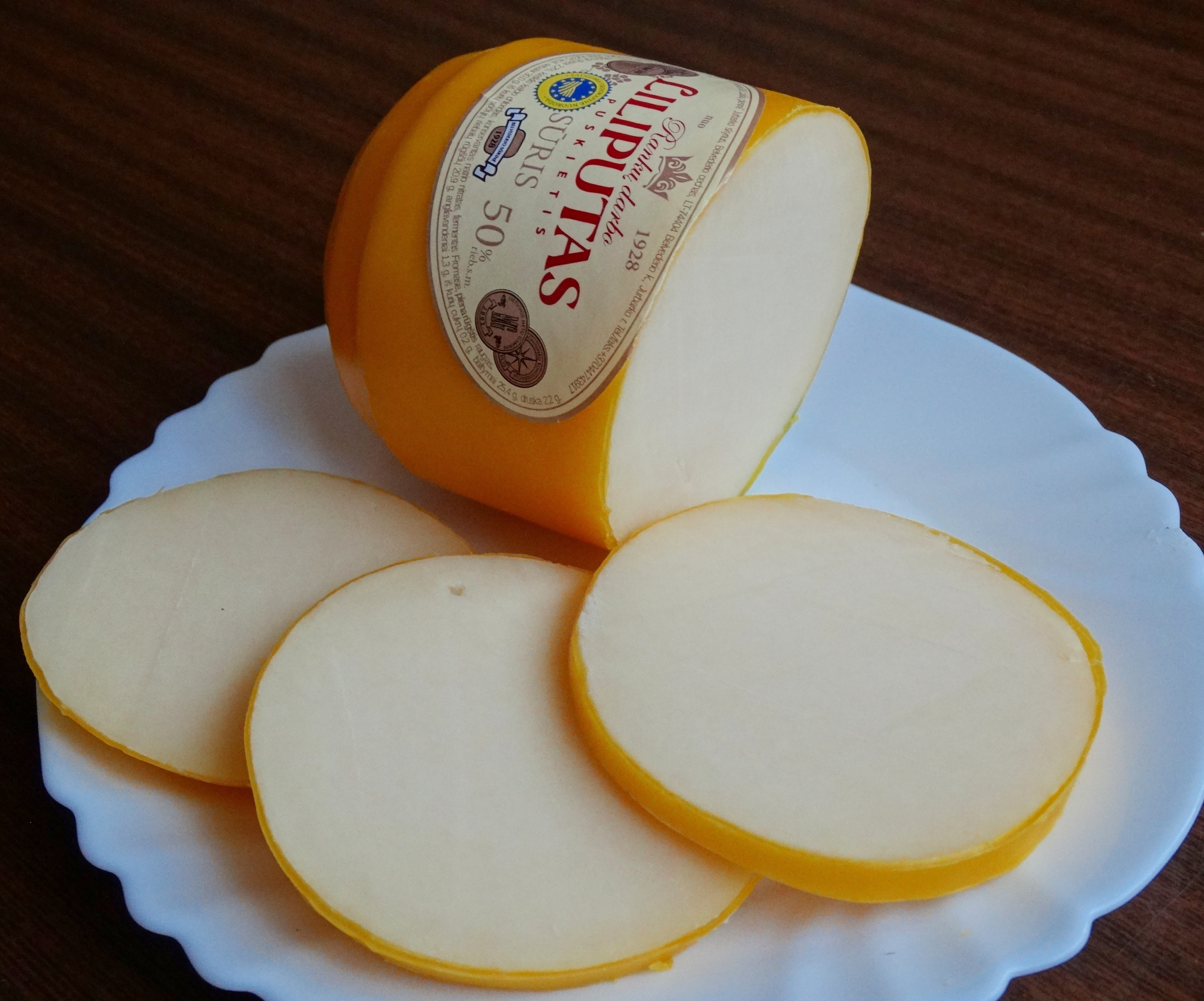 Traditional Lithuanian food: cheese „Liliputas“